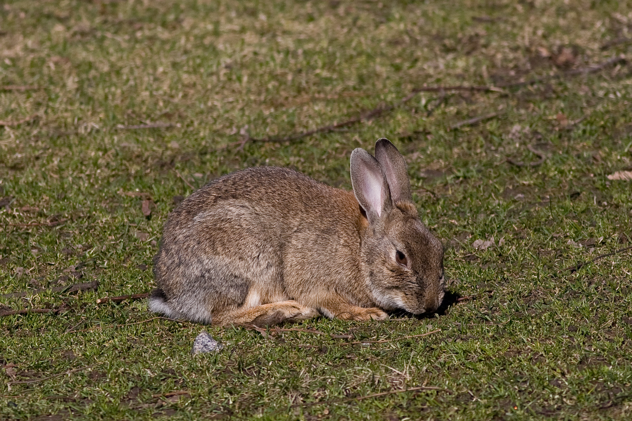 European rabbit (Oryctolagus cuniculus) as photographed in Helsinki, Finland near Finnish National Opera.